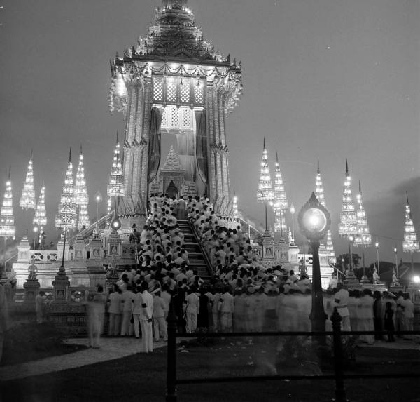 Government officers offering of sandalwood flowers (Actual royal cremation of Ananda Mahidol)